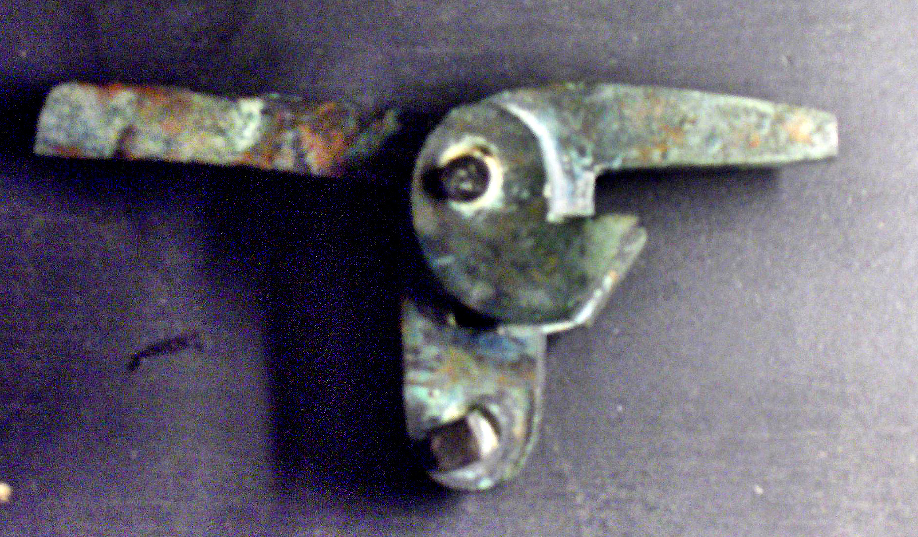 Mechanism from the trigger of a crossbow from Lintong pit 2, Qin-dynasty